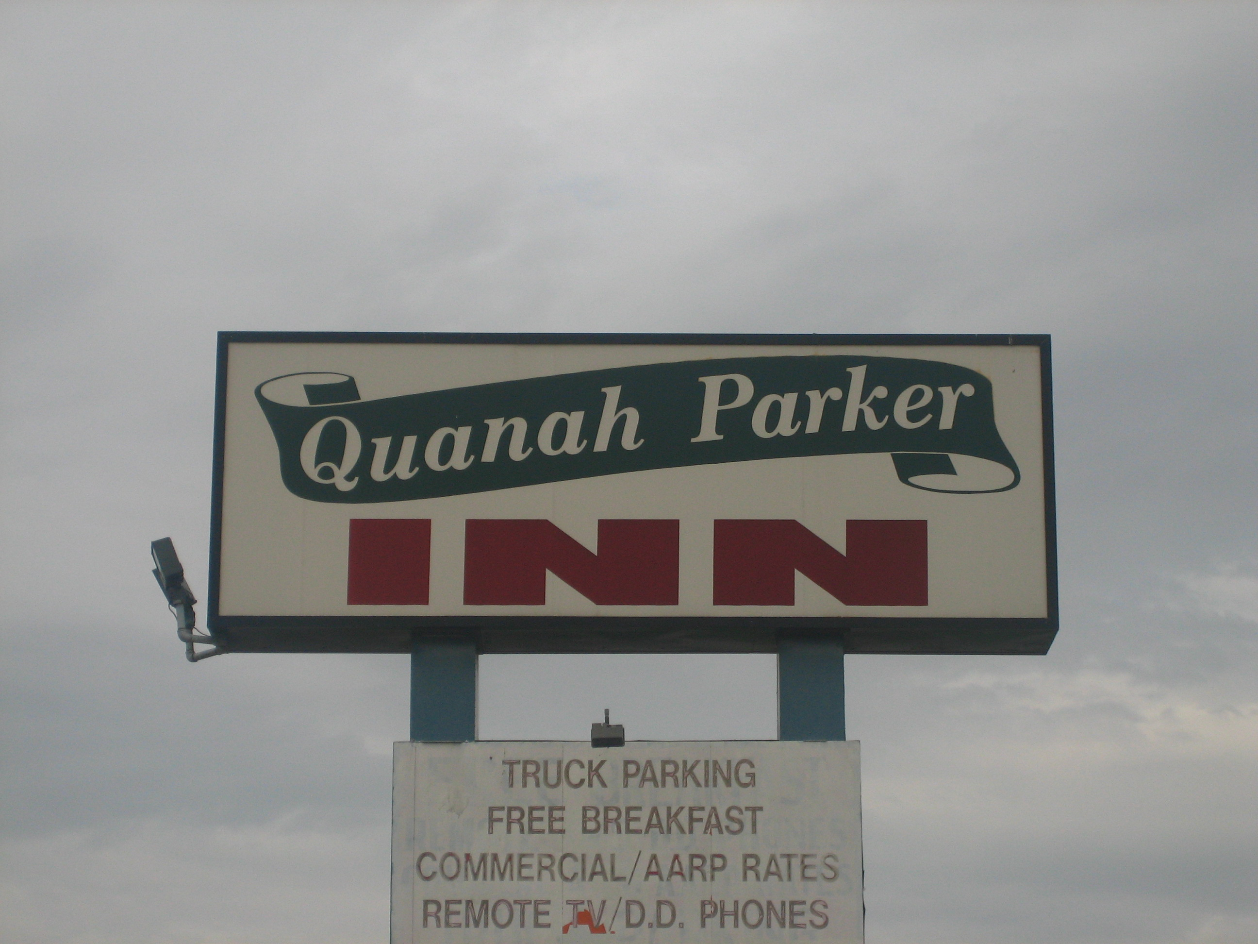 I took photo in July 2008.